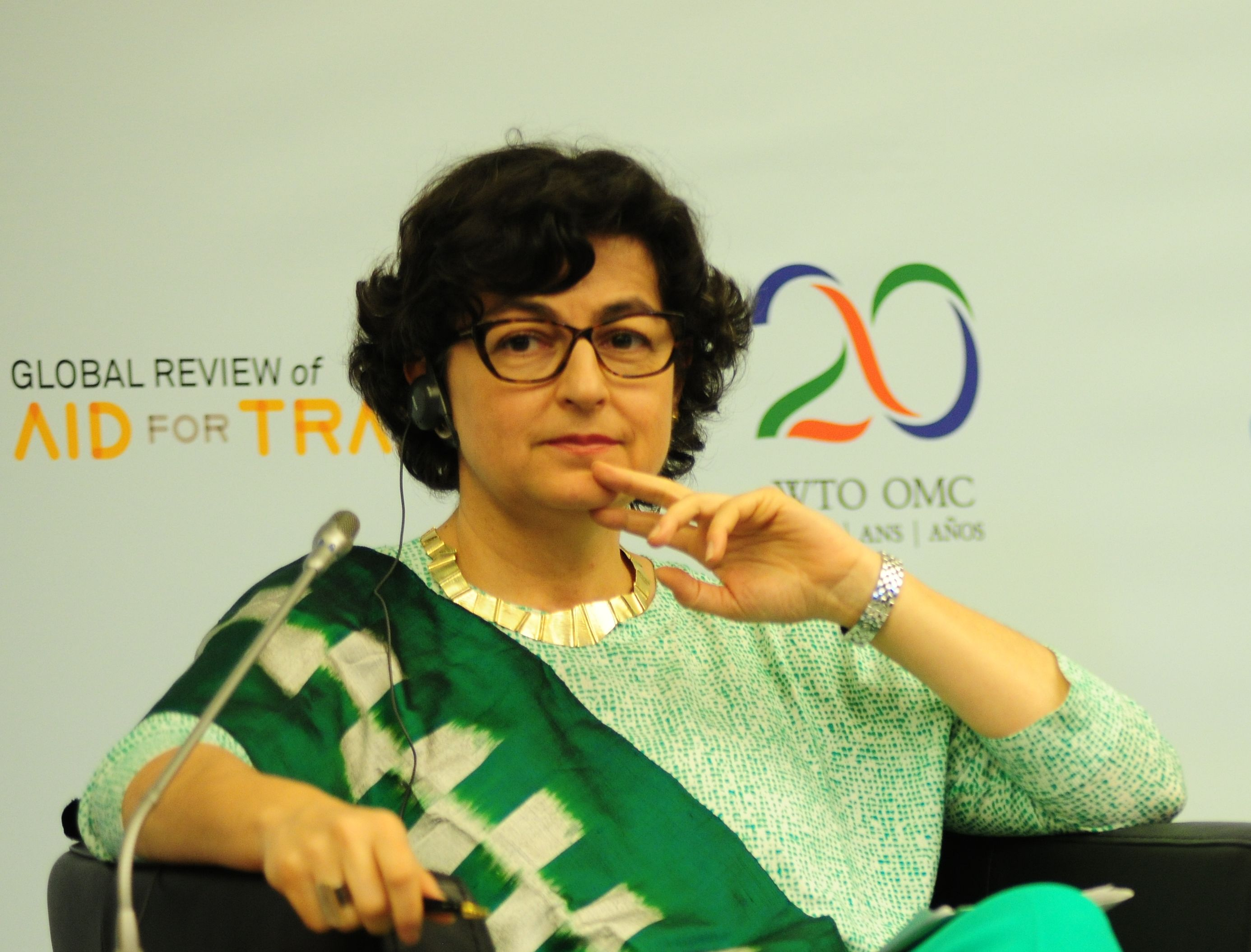 Executive Director of the International Trade Centre Arancha Gonzalez at the Fifth Global Review of Aid for Trade, 30 June - 2 July 2015.